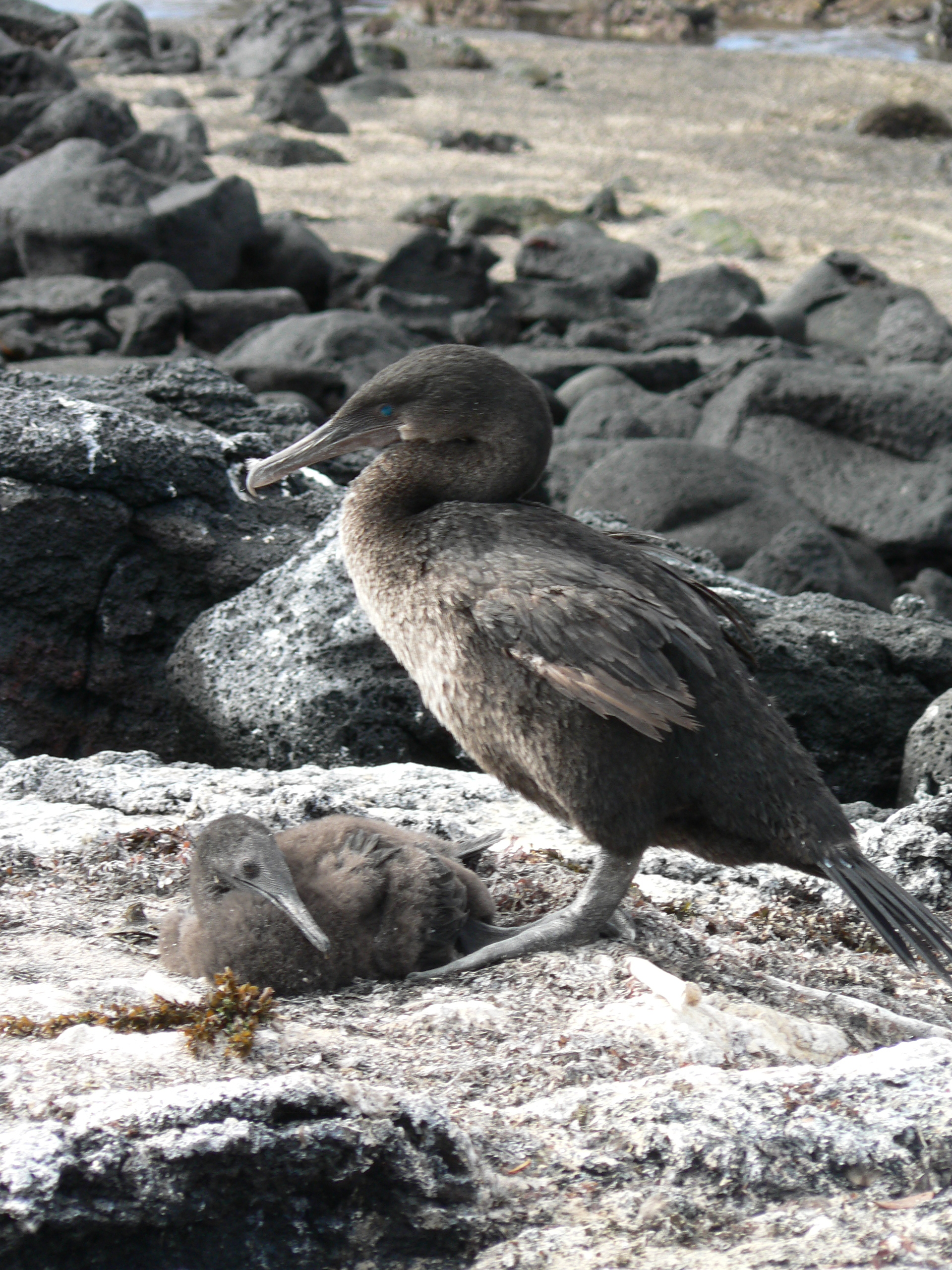 Flightless cormorant (Phalacrocorax harrisi) with chick, Punta Espinosa, Fernandina, Galapagos Islands.